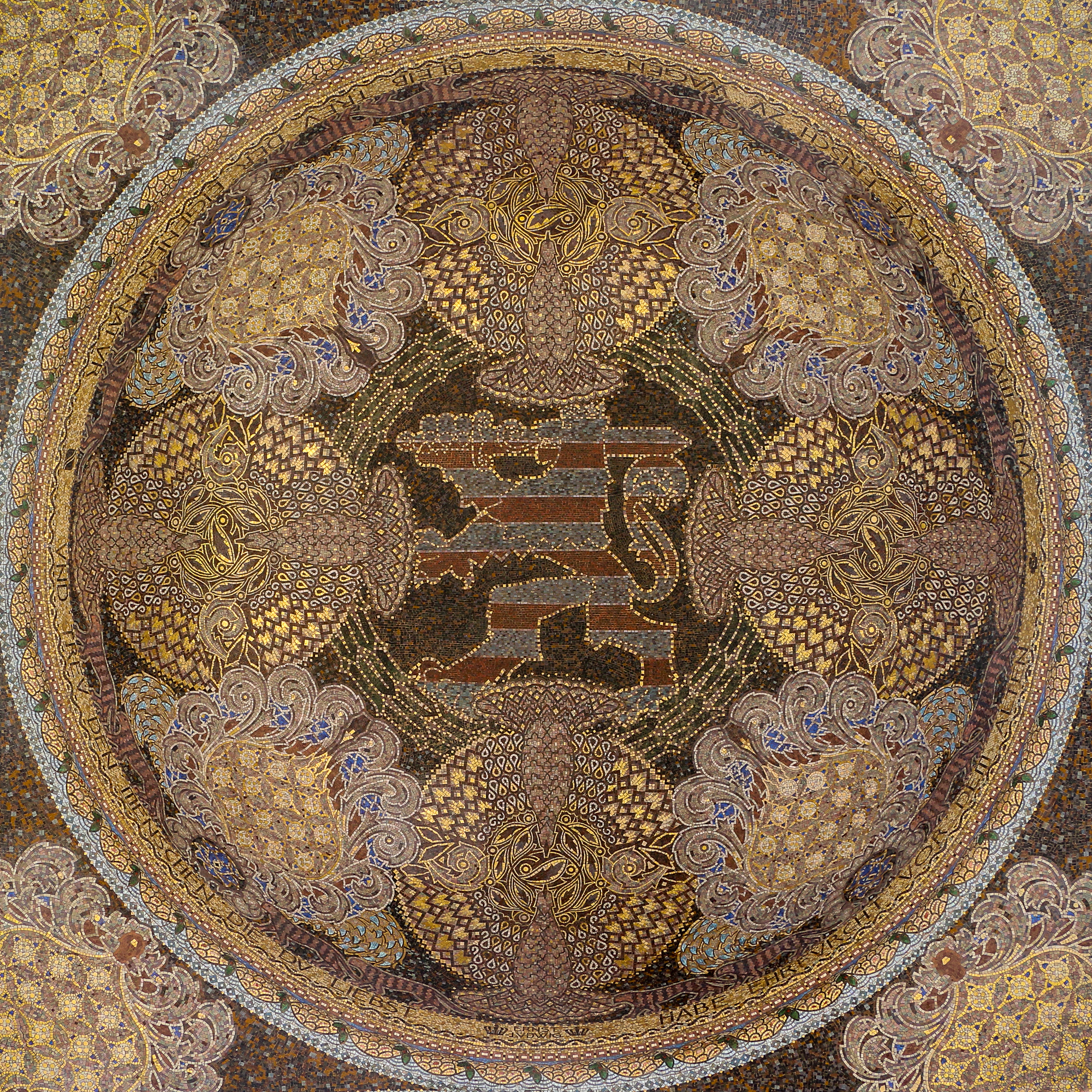 Roof mosaic, exhibition building, Mathildenhöhe, Darmstadt